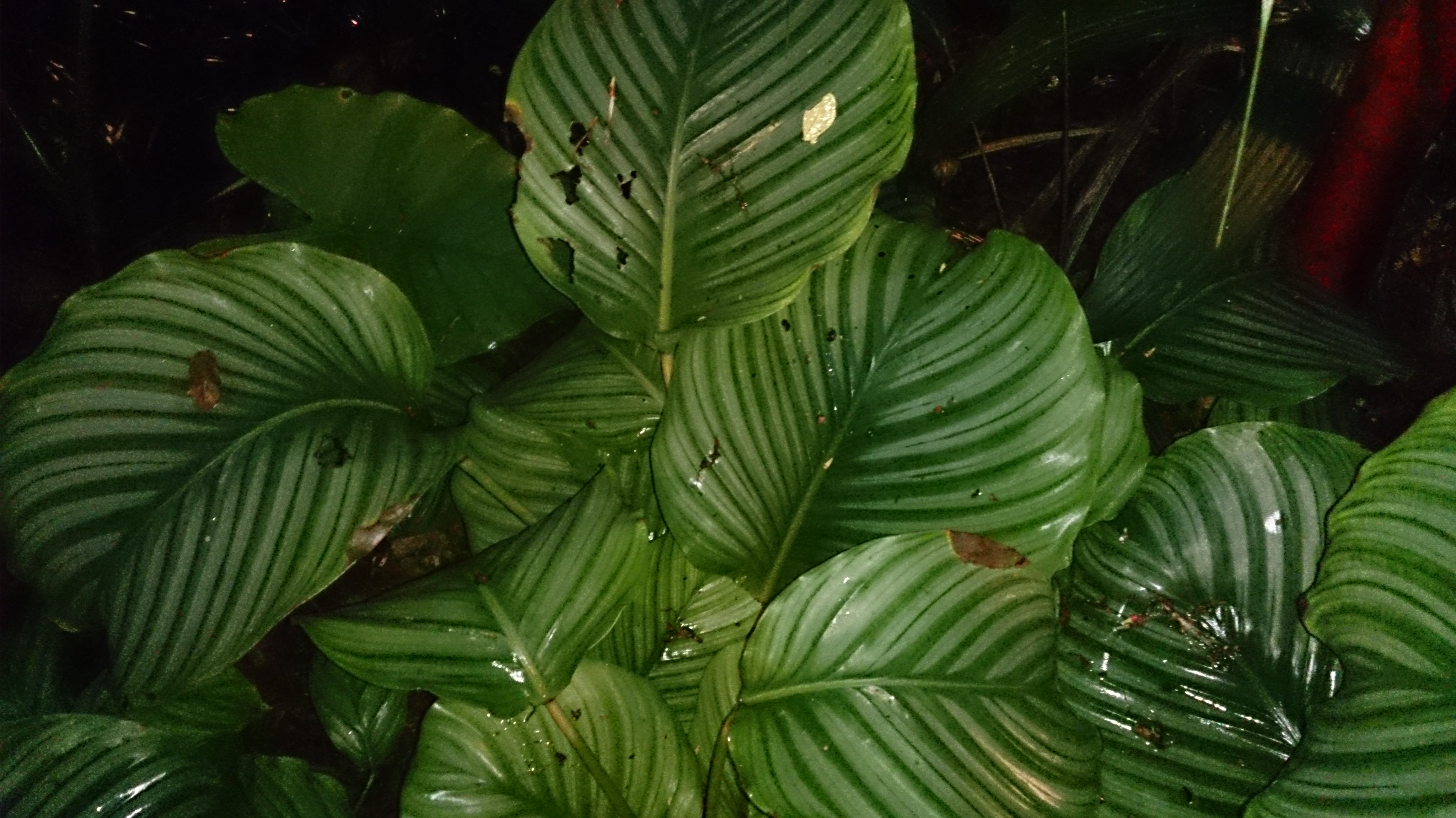 Prayer plants (Marantaceae family: including Calathea, Stromanthe, Ctenanthe and Maranta spp.) exhibit a behaviour known as nyctinasty. Their leaves curl up at night and look like praying hands and unfold in the day.